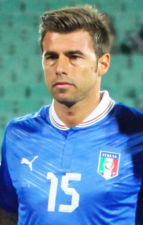 Andrea Barzagli before the football game with Bulgaria, "Vasil Levski" stadium, Sofia, Bulgaria, September 7, 2012